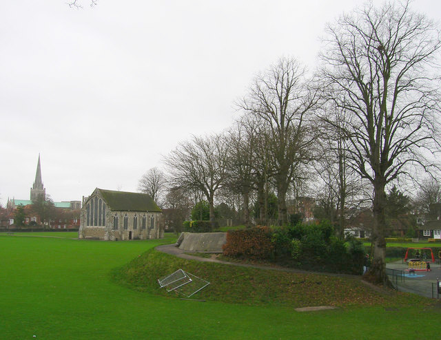 Chichester Castle stood in the city of Chichester, West Sussex (grid reference SU863051). The remains of the motte are still visible today in Priory Park.The raised mound that was once home to a keep is all that remains of a defensive motte and bailey built by the Normans in the 11th century. Built within the city walls it was demolished in the early 13th century and the land given over the Greyfriars to erect a friary, the only surviving bit being the former guildhall that lies beyond the mound. After the dissolution the land was given over to the Duke of Richmond whose descendants finally passed it over to the city who in turn made it a public park.